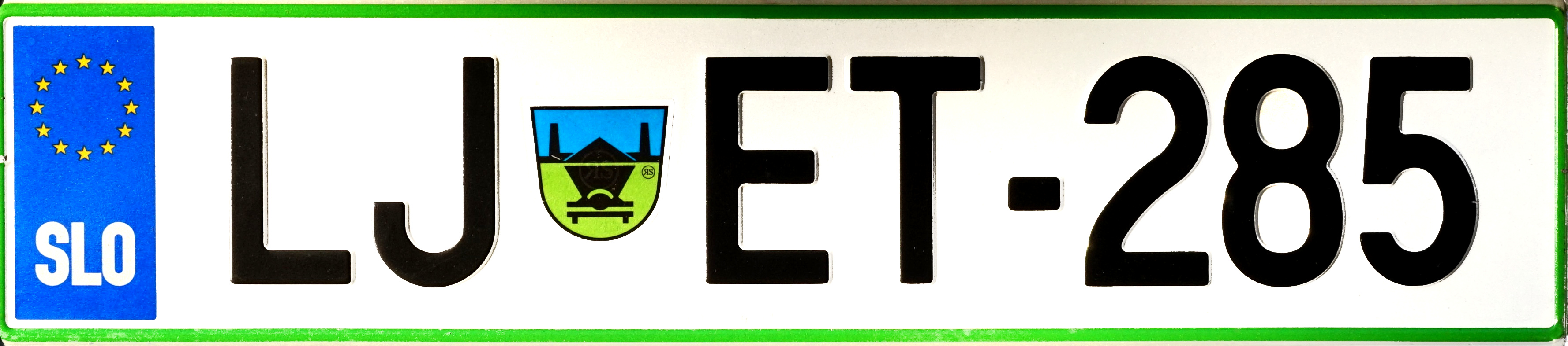 Slovenian license plate with a sticker of Trbovlje administrative unit